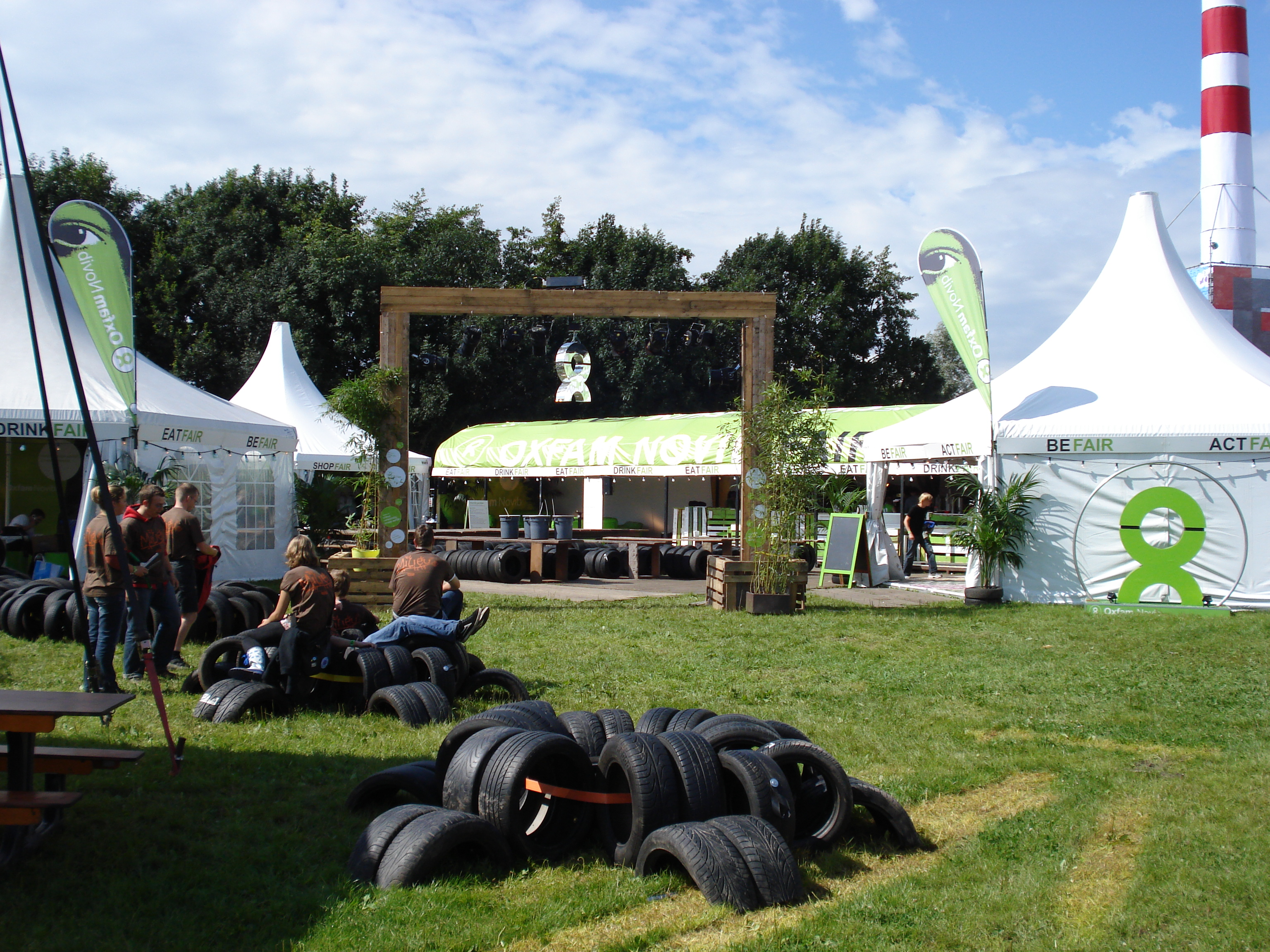 Oxfam Novib at Lowlands 2007